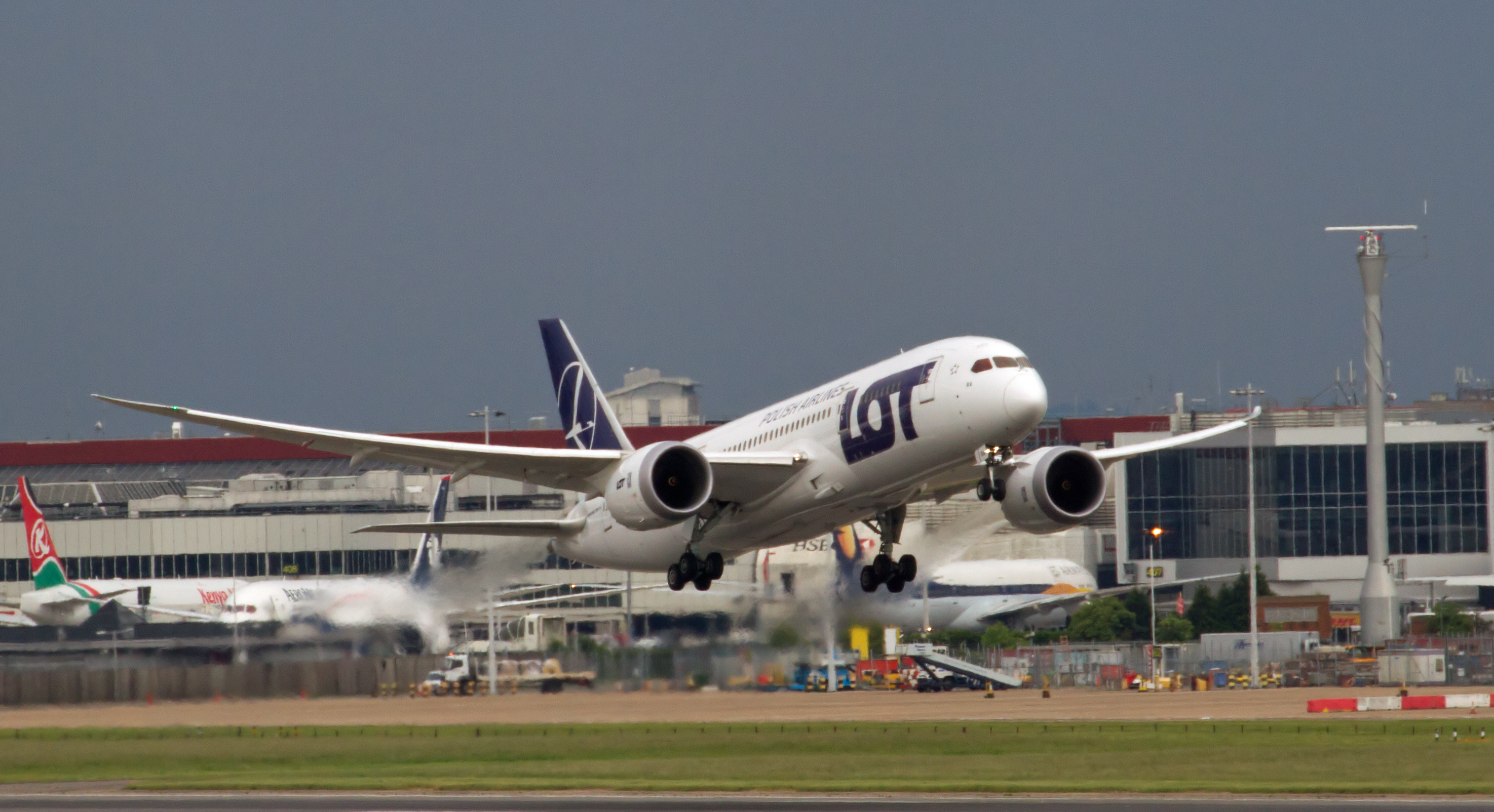 LOT - Polish Airlines Boeing 787-8 Dreamliner SP-LRA Taking Off